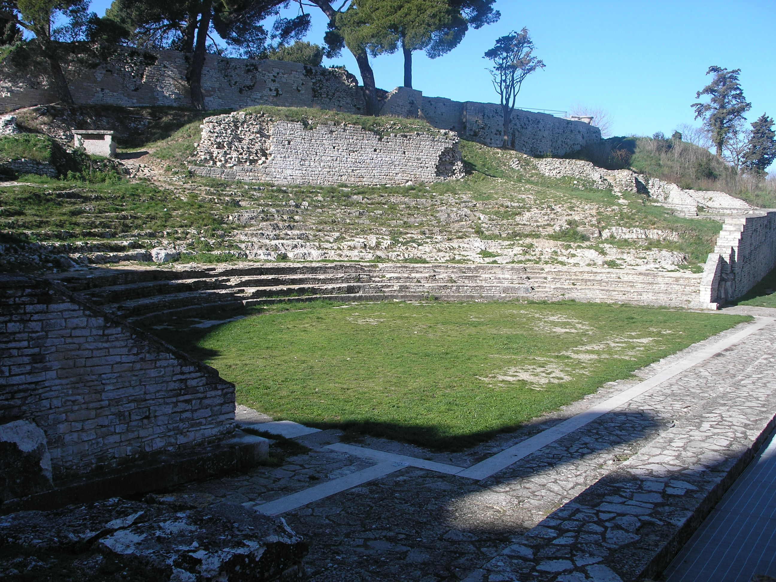 Small Roman theatre in Pula, Croatia